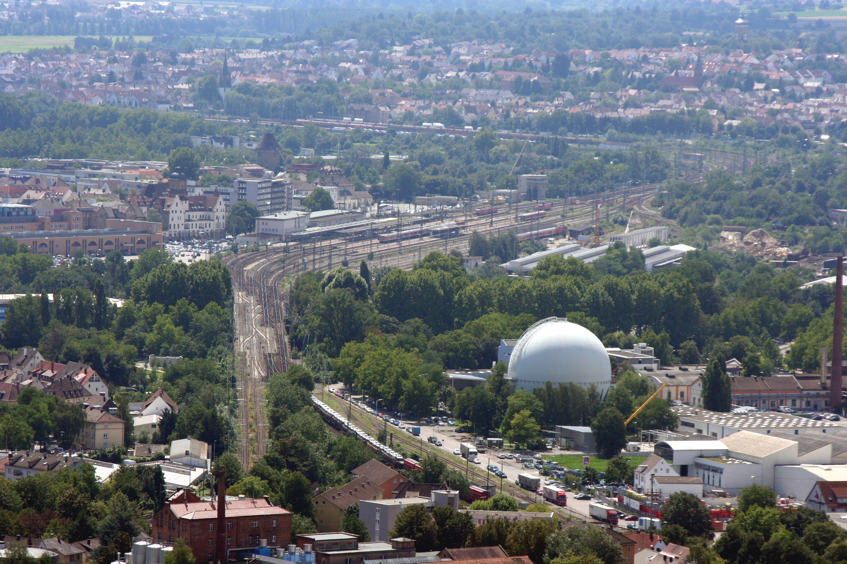 Railway facilities in Heilbronn as seen from the Wartberg tower. The central railway station is in the middle of the image